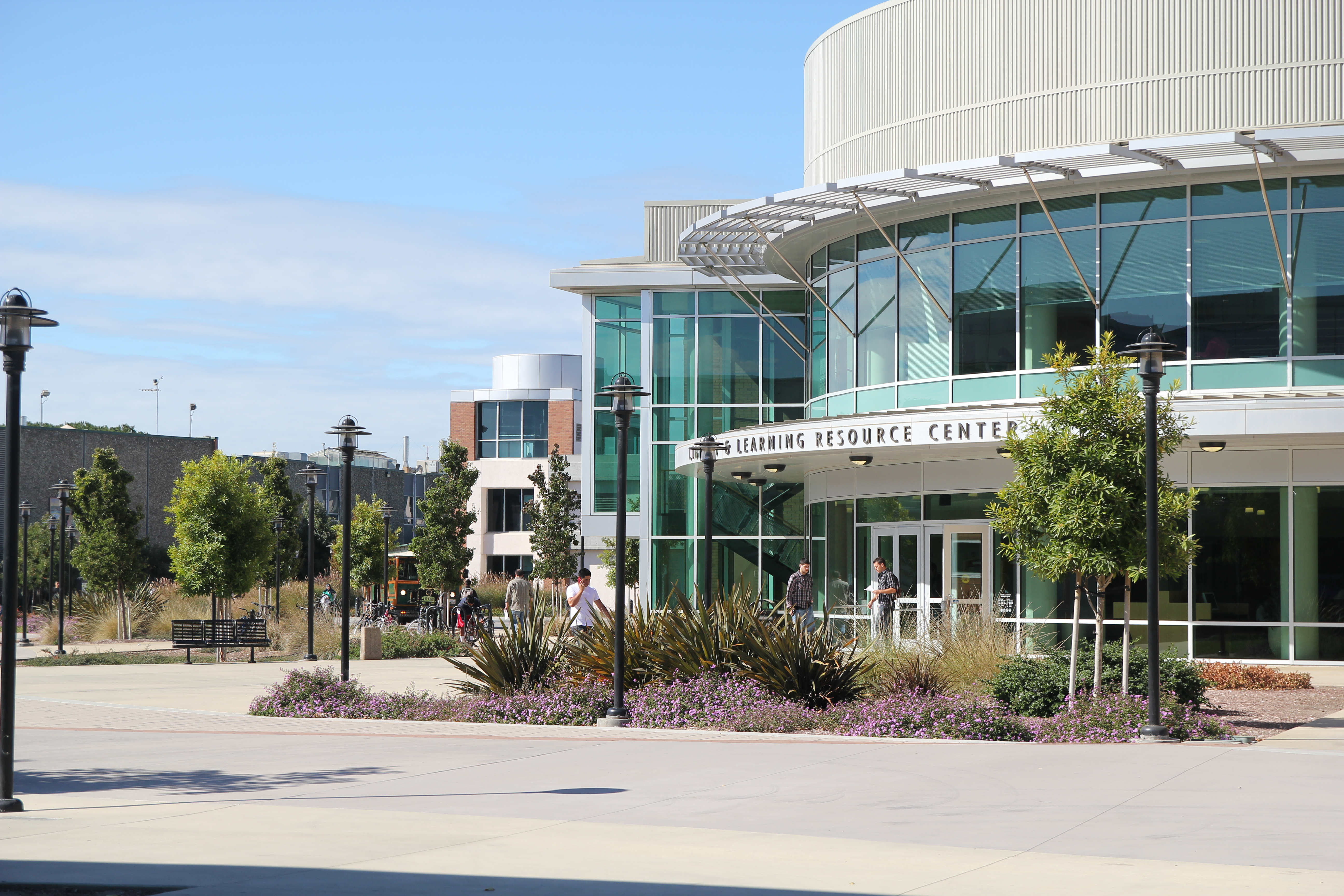 Hartnell College 2012